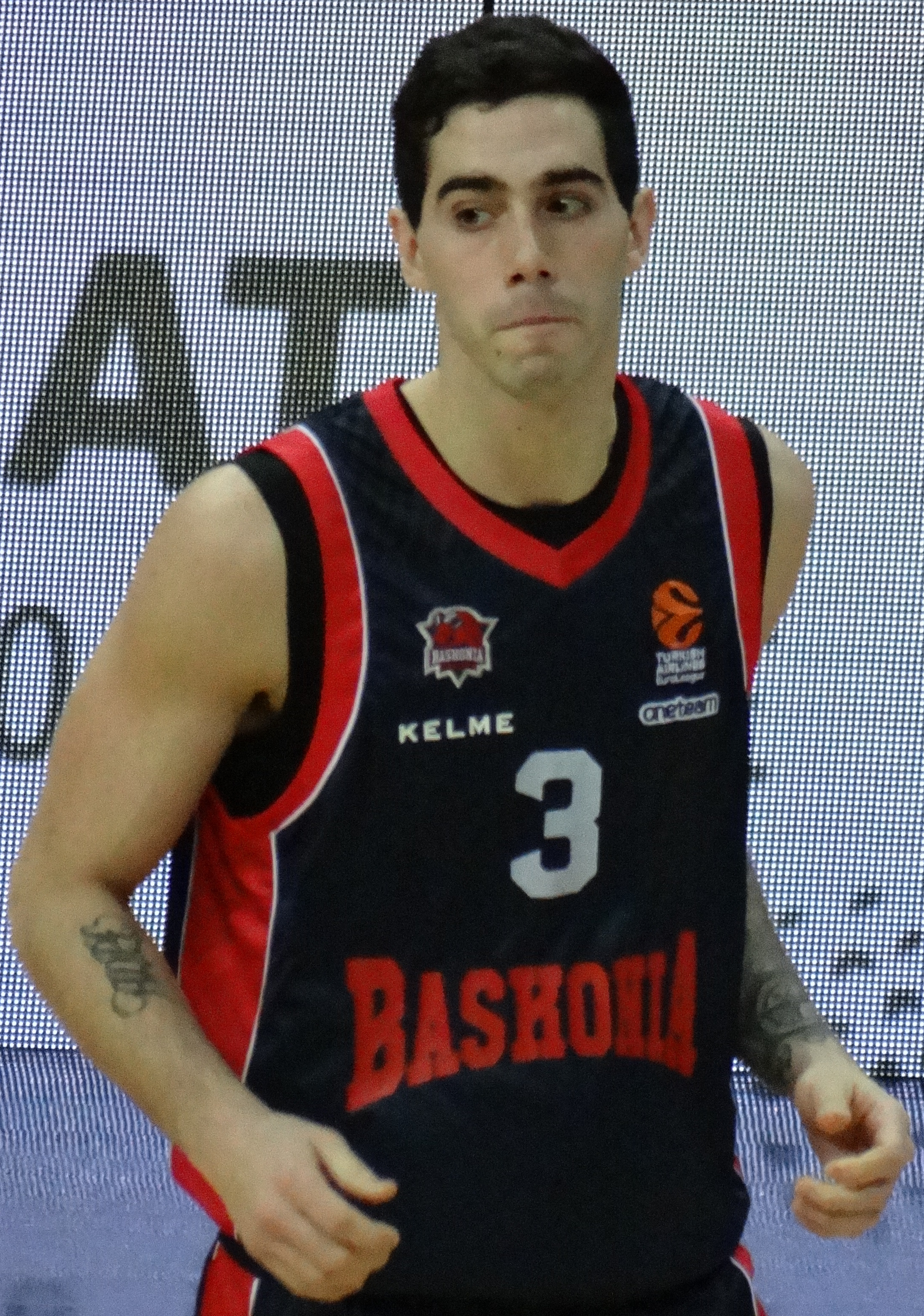 Marica Gajic Fenerbahçe Women's Basketball vs Mersin Büyükşehir Belediyesi (women's basketball) TWBL 20180121